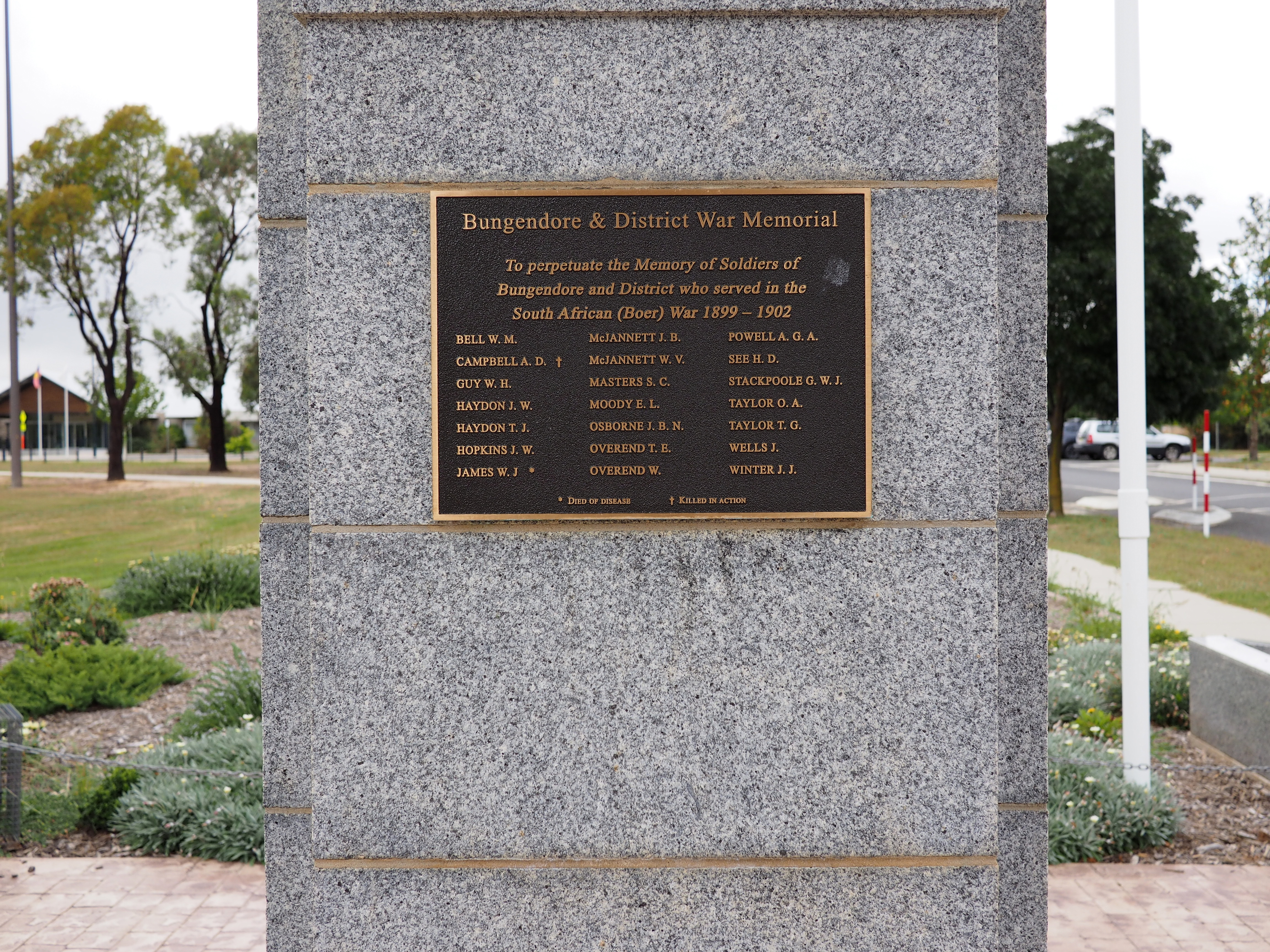 The Boer War panel of the Bungendore and District War Memorial, located inside the memorial's arch. The panel was added and dedicated on 29 May 2011 (see Register of War Memorials in NSW: Bungendore and District War Memorial)